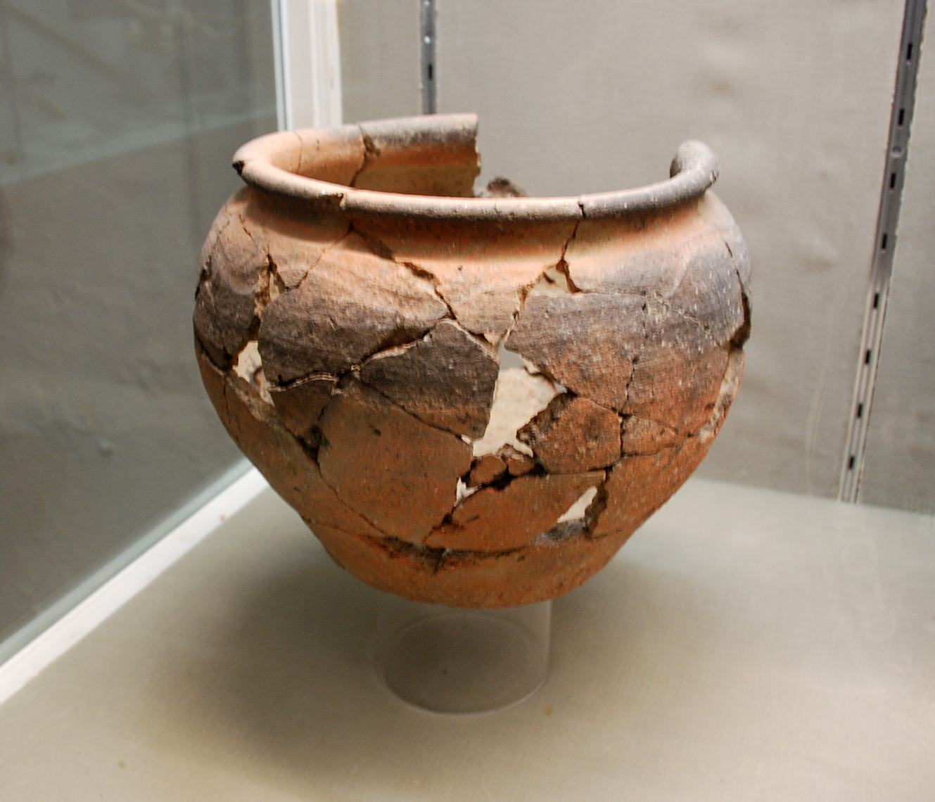 Archaeological museum of San Pedro in Saldaña (Palencia, Castile and León).